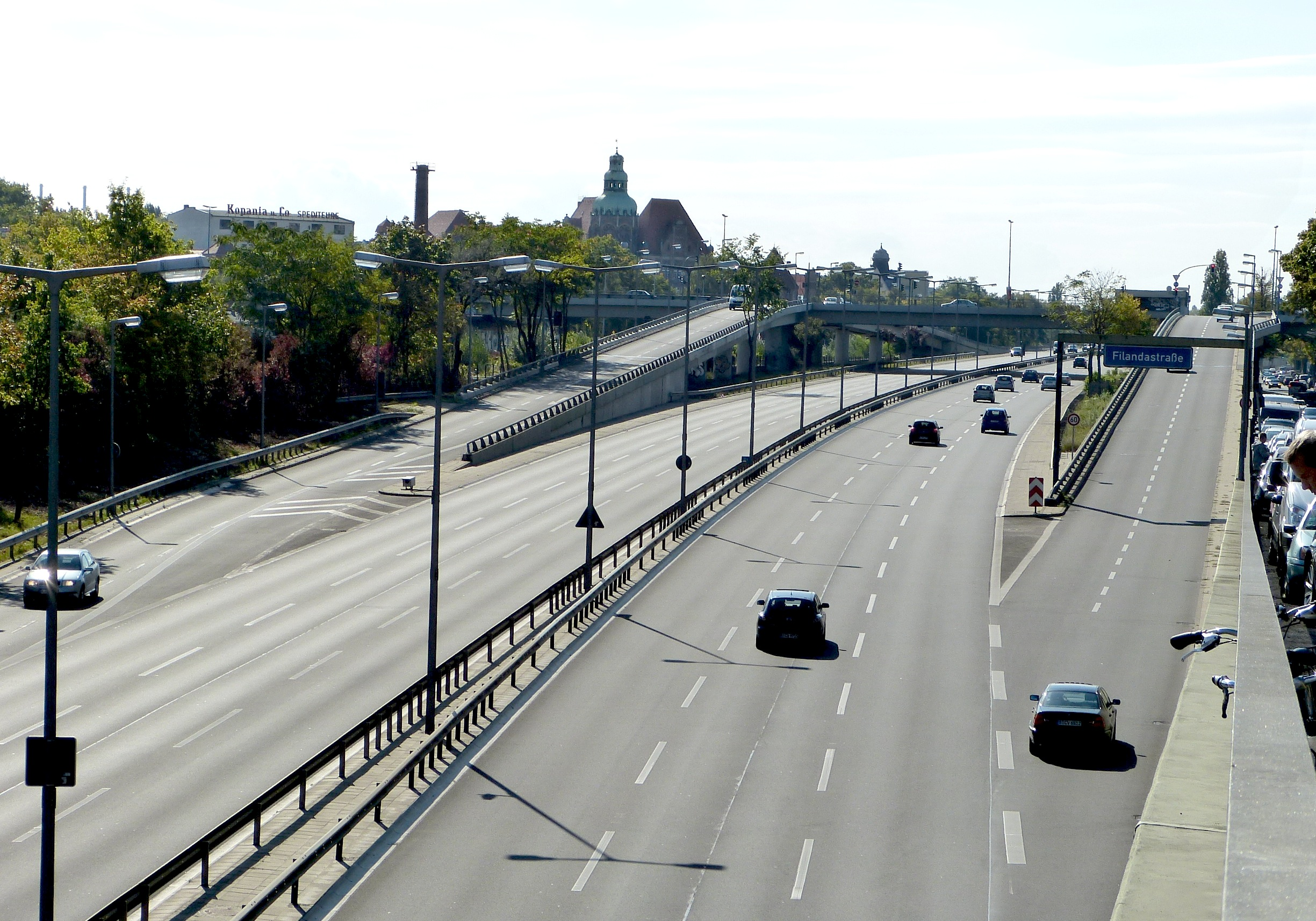 Part of Berlin motorway A103 southward, close to the exit "Filandastraße"